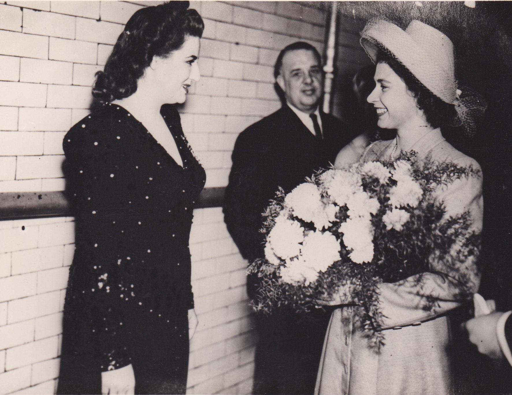 Anne Shelton being presented to H.M. Queen Elizabeth at the Royal Command Performance at the London Coliseum in 1953